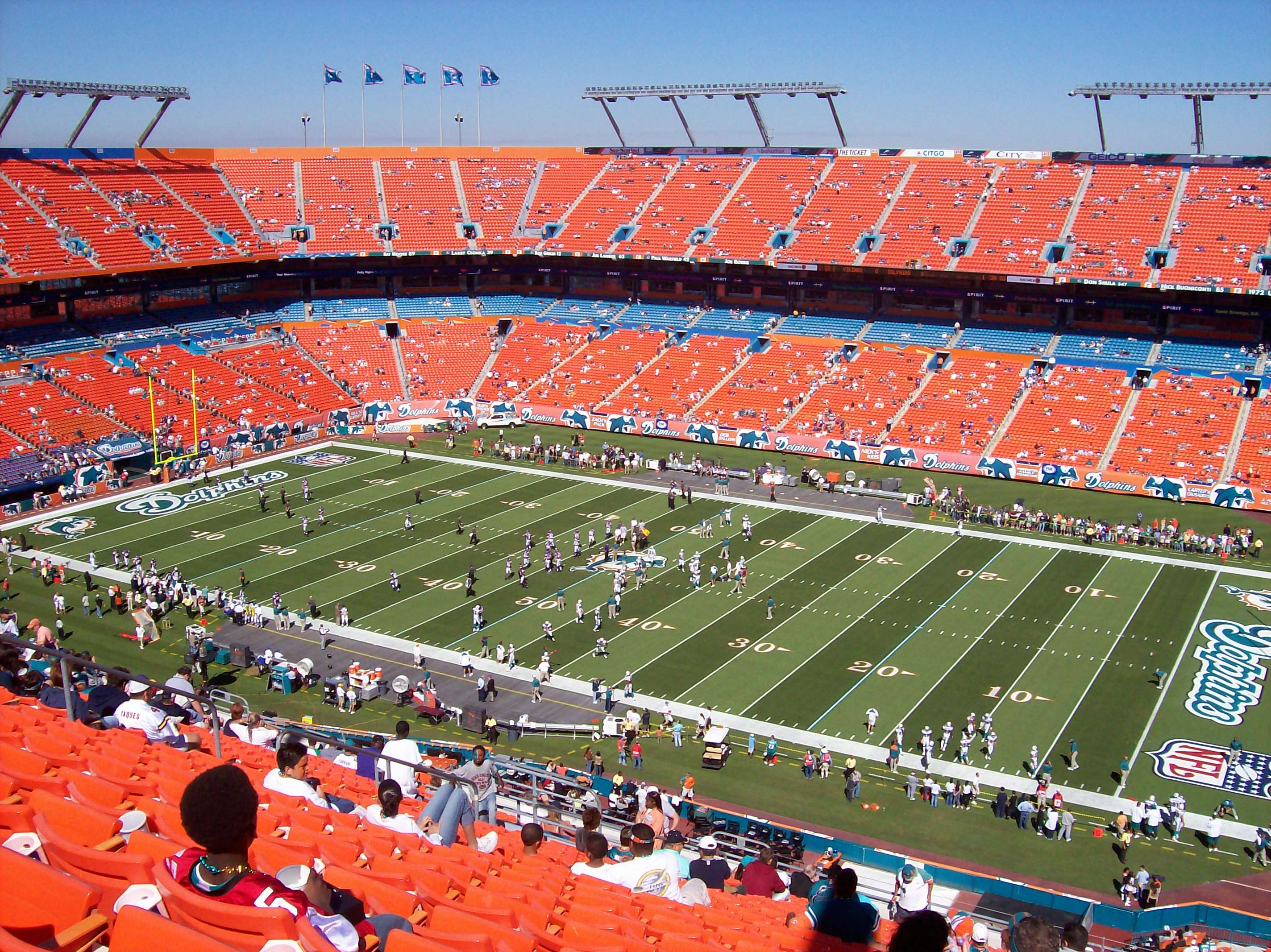 Inside of Dolphin Stadium taken before the Dolphins/Vikings game November 19, 2006 05:12, 22 March 2007 . . AdamFirst . . 2848×2134 (961,724 bytes)